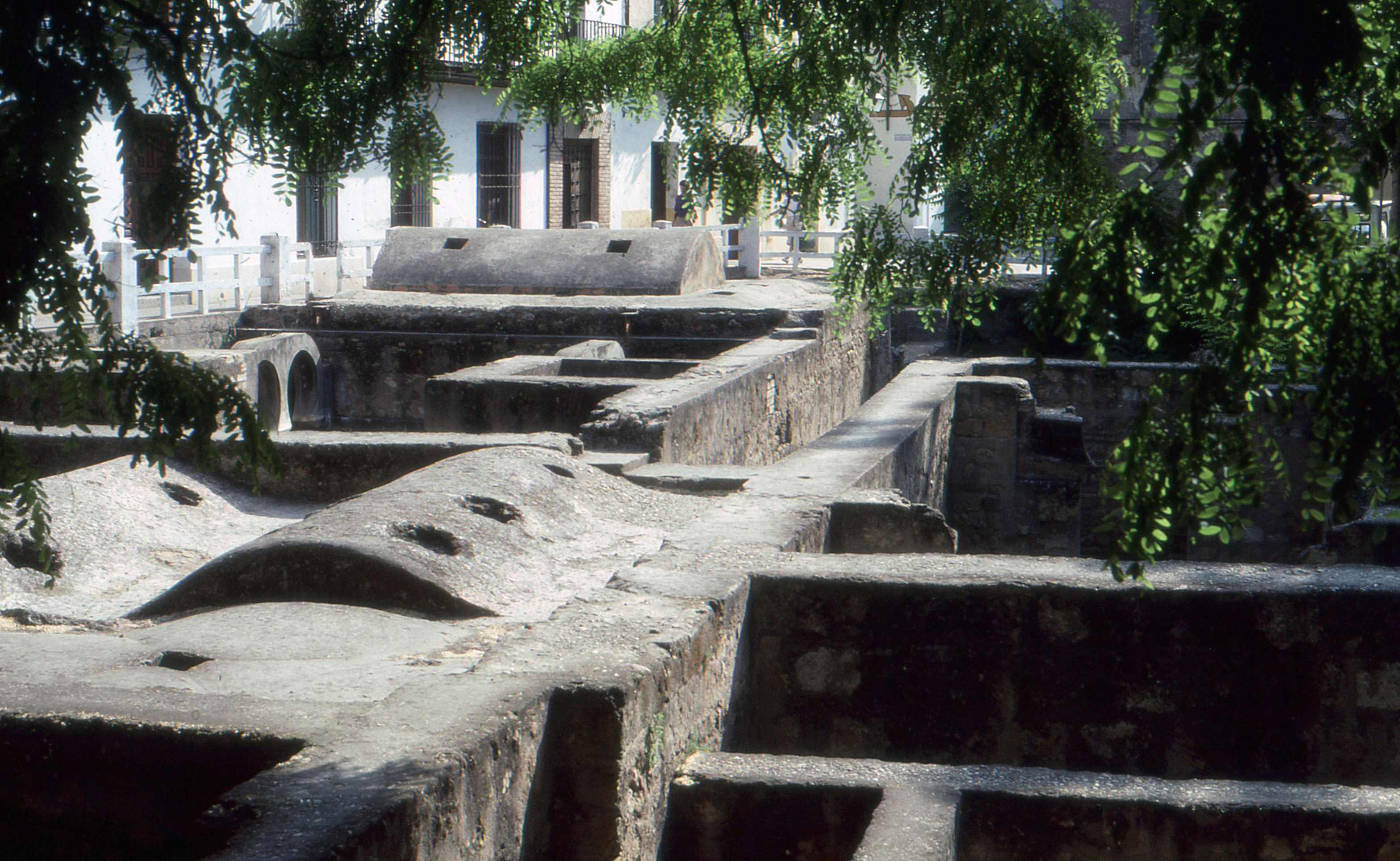 Arab Baths in use from the Almoravids to the Almohads.